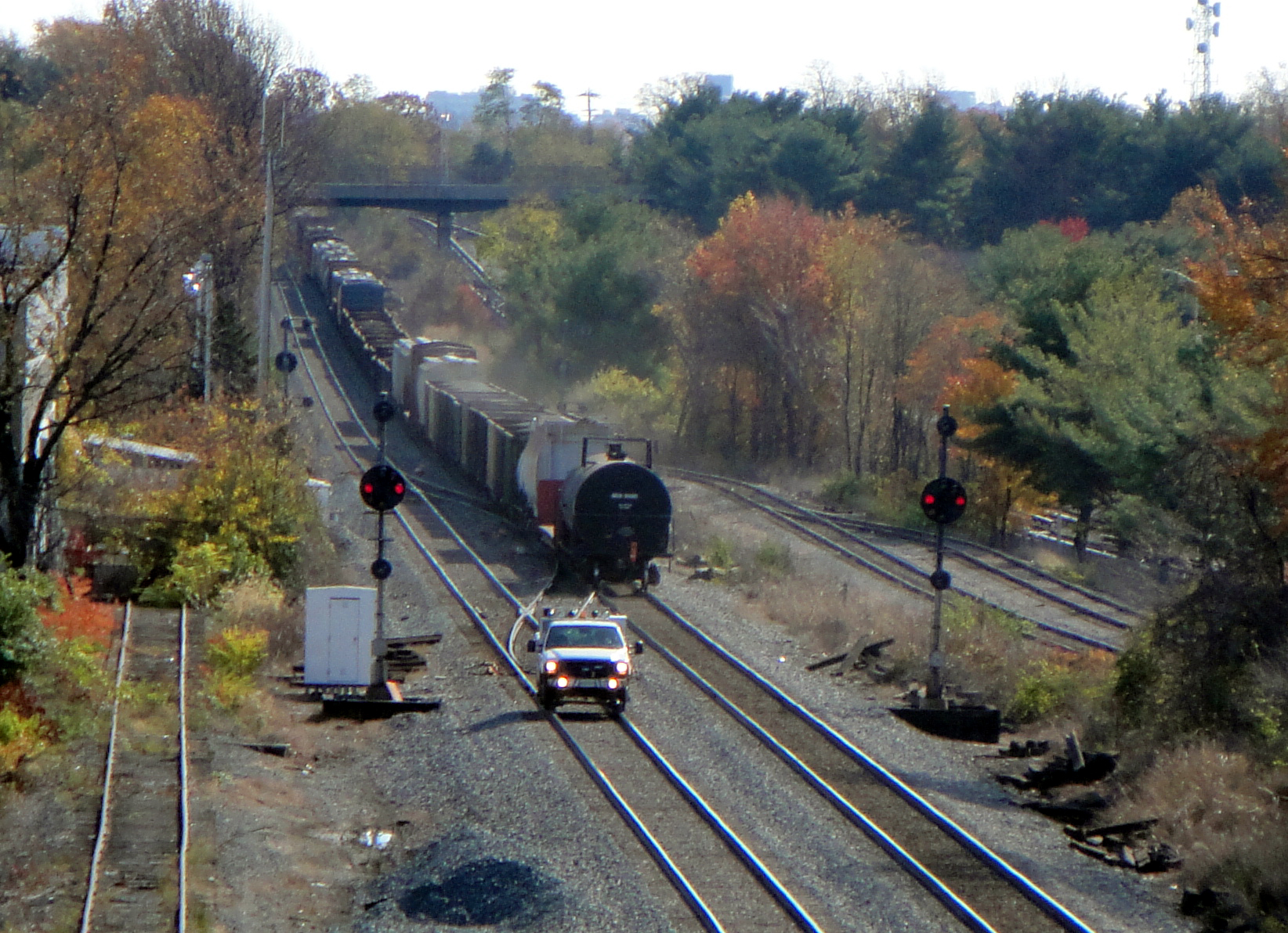 View of Derwood interlocking and color position light signals on CSX Metropolitan Subdivision in Derwood, Maryland. CSX freight train heading east towards Washington, D.C.